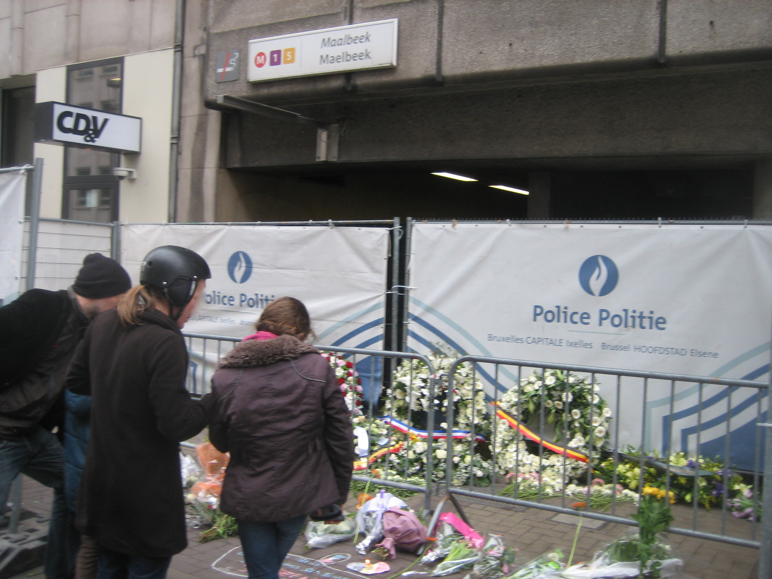 Entrance of Maelbeek/Maalbeek metro station at Rue de la Loi/Wetstraat: Flowers and inscriptions after March 2016 Brussels attacks